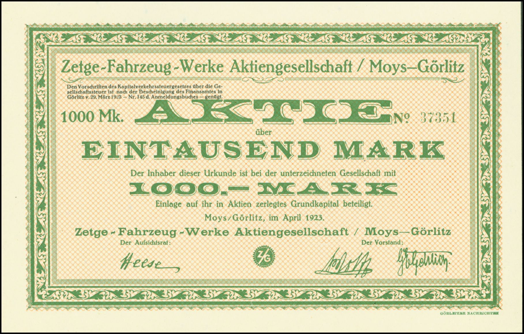 Share of the Zetge-Fahrzeug-Werke AG, issued in April 1923